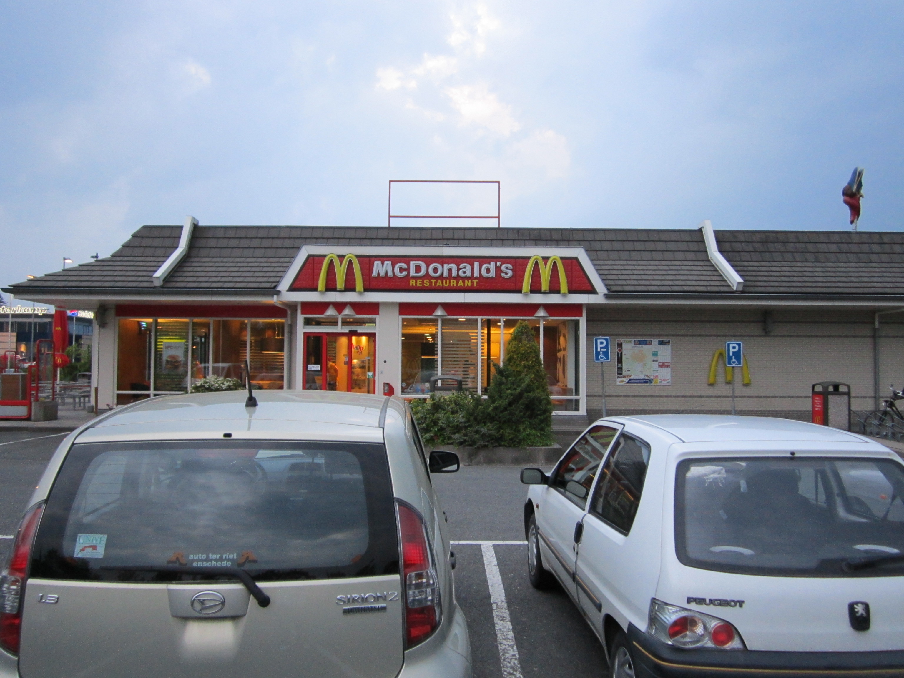 McDonald's restaurant in Oldenzaal, region Twente, Province Overijssel (Netherlands)